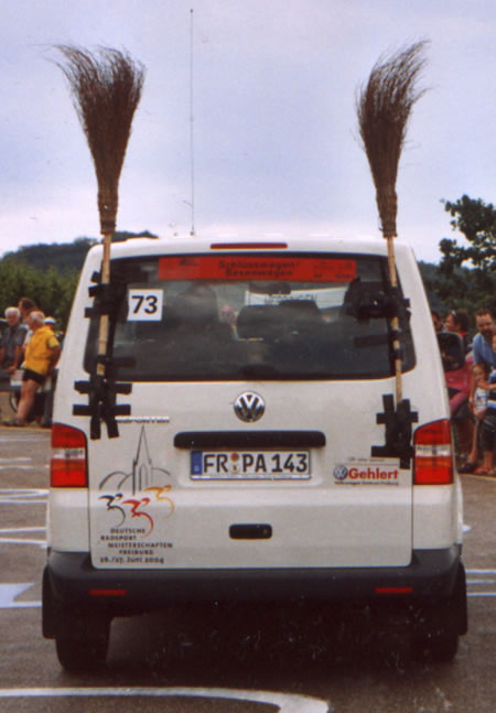 "broom car" which picks up people who fall so far back in a race they have no chance of passing the finish within the time limit.